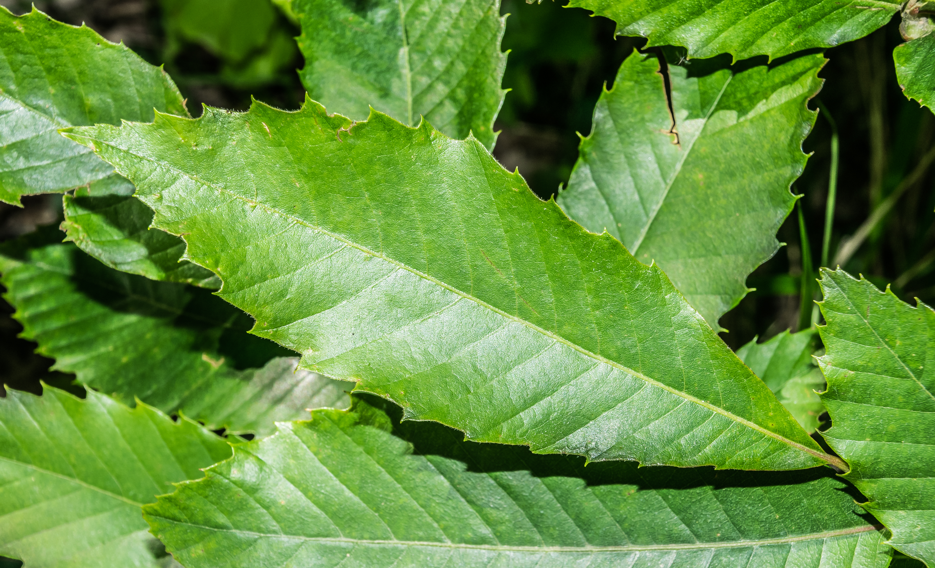 Leaf of Castanea sativa in commune of Saint-Christophe-Vallon, Aveyron, France